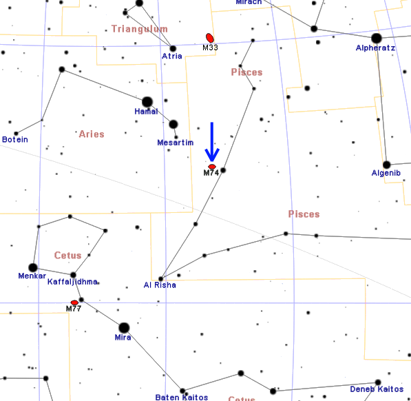 Map of M74